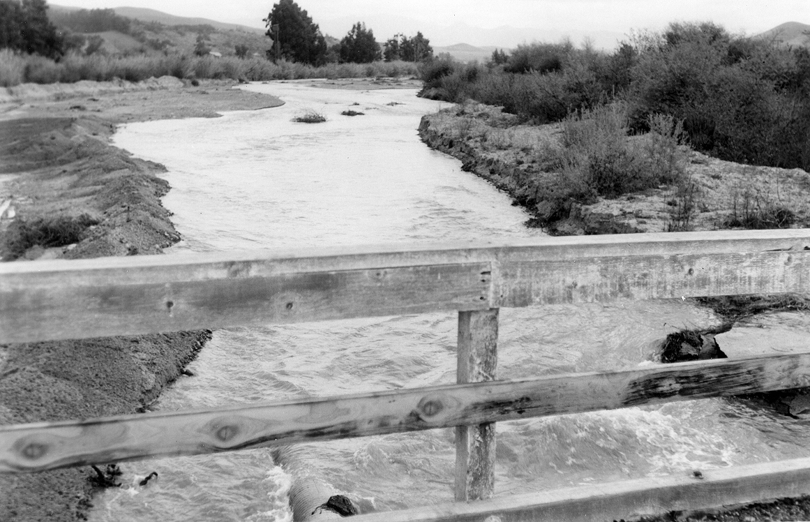 San Juan Creek in Orange County, Southern California — in March of 1958. Creek's headwaters are in the Santa Ana Mountains, within the Cleveland National Forest.